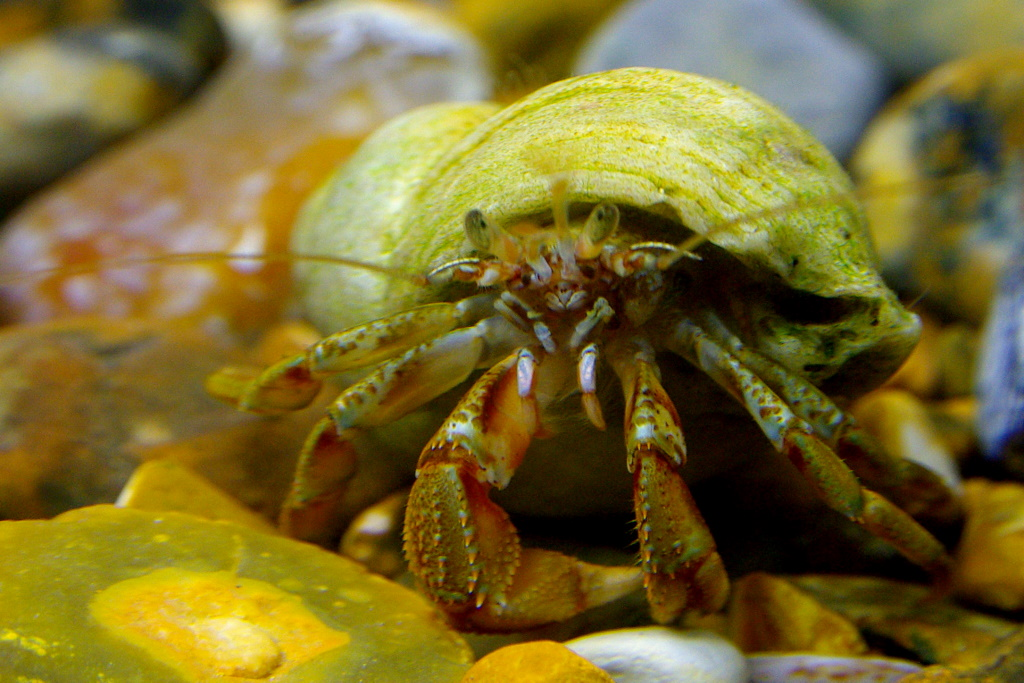 Common Hermit Crab in aquarium tank